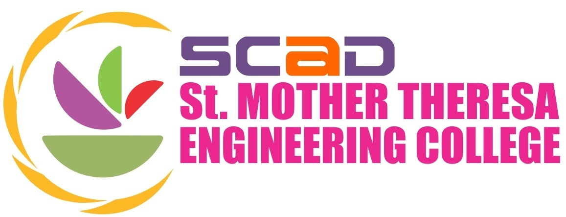 SCAD-MTEC-Logo